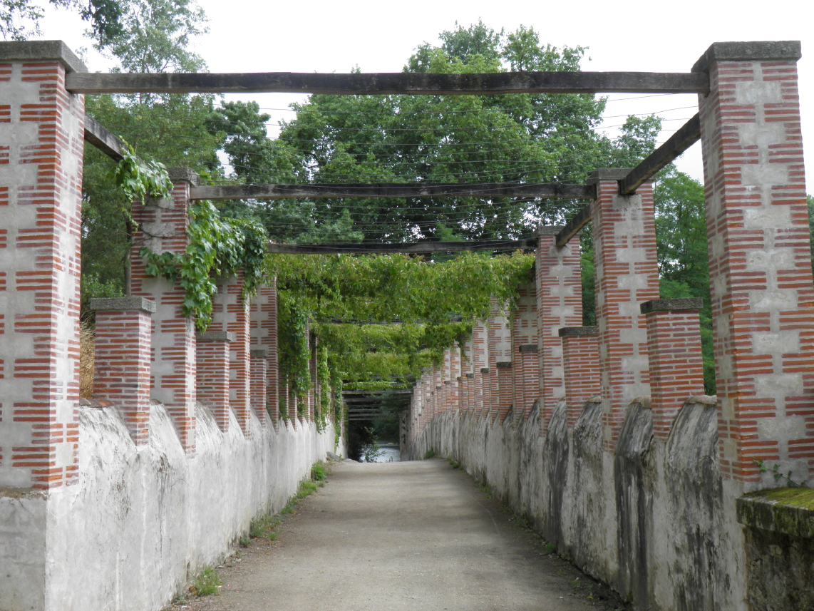 Arbor at the entrance of La Garenne Lemot Park